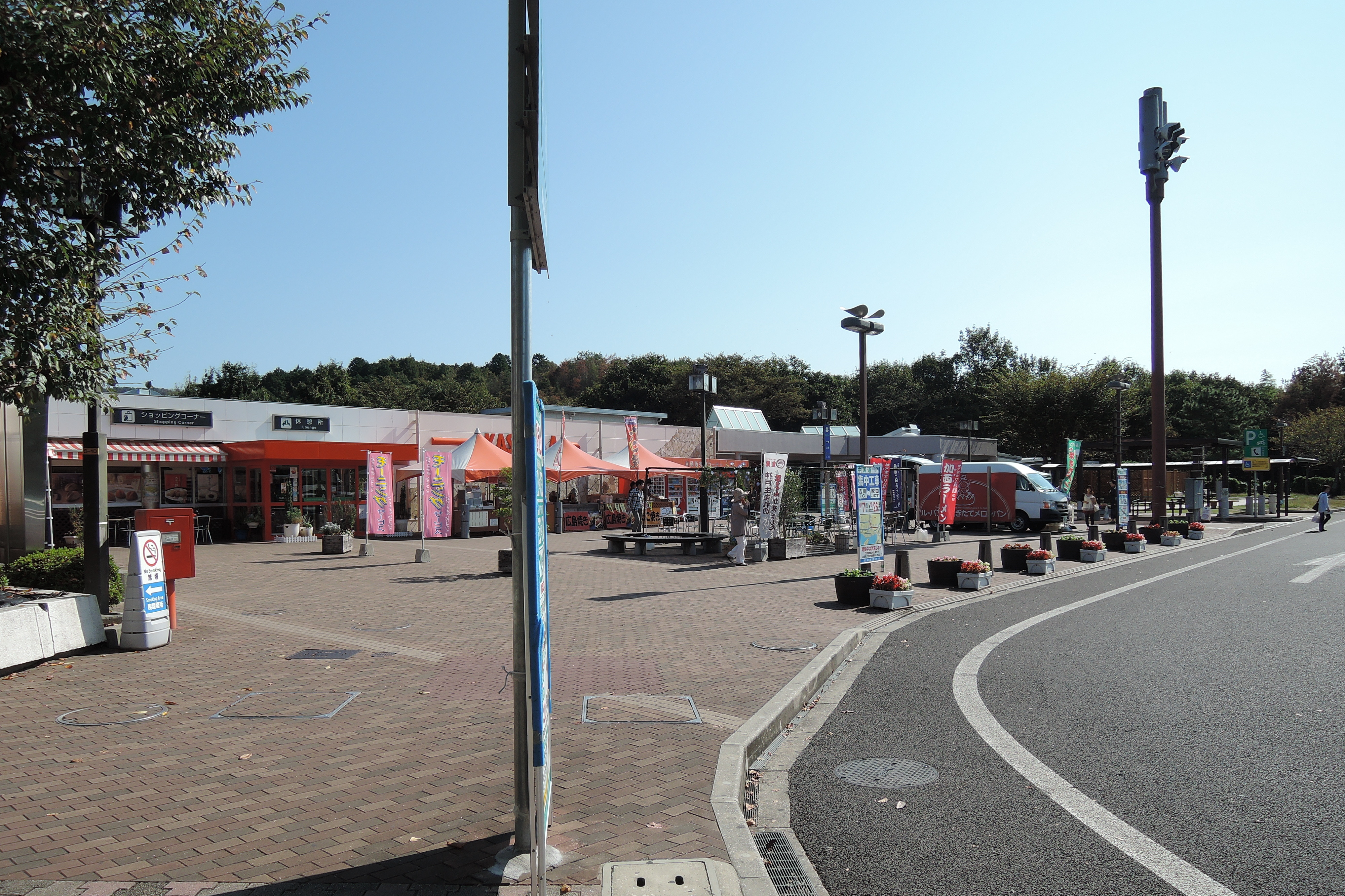 Kasai Service Area ,Hyogo prefecture, Japan